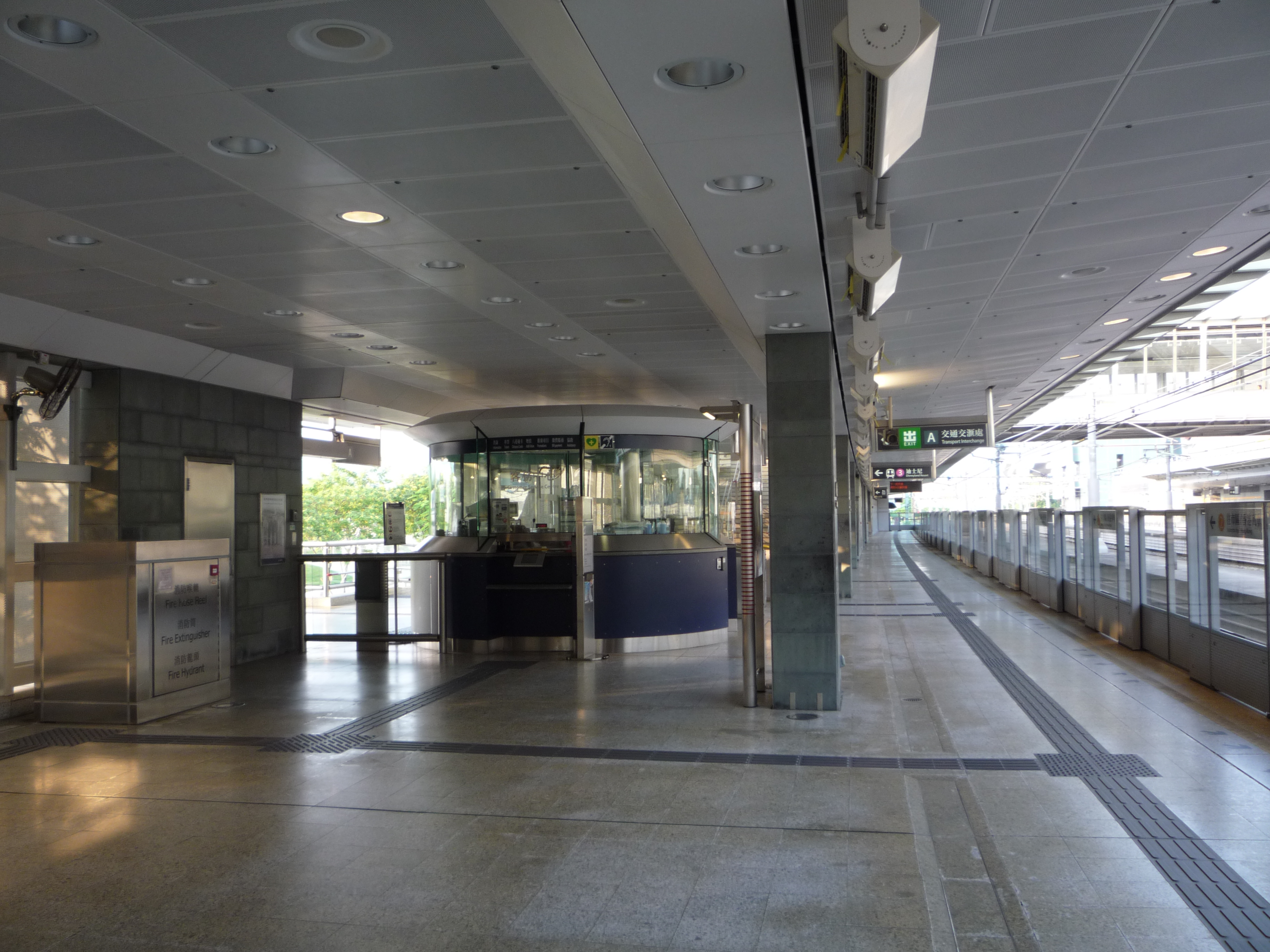 MTR Sunny Bay Station Exit A, Customer Service Centre and platform No.2